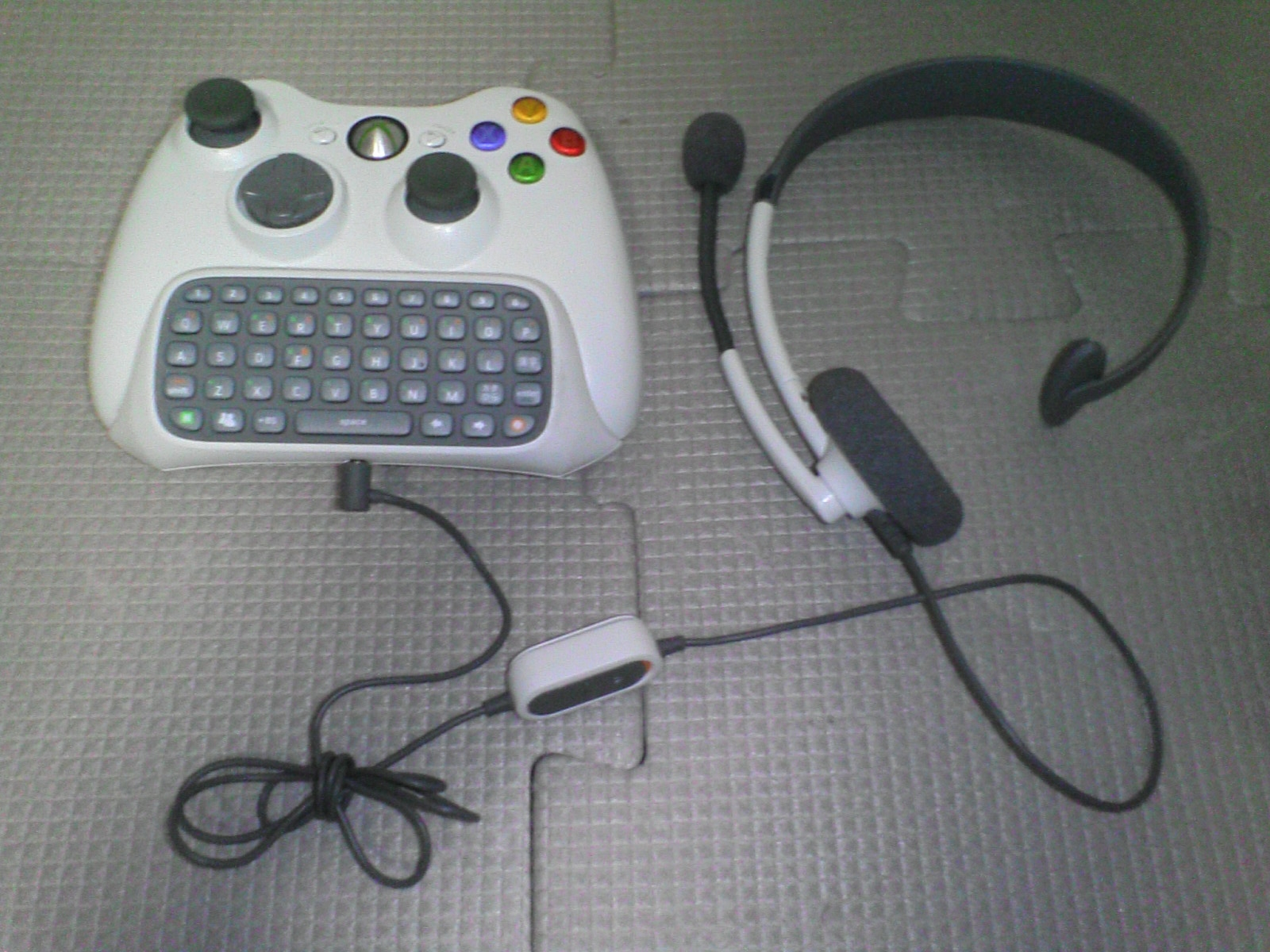 Controller for Xbox 360 attached Messenger Kit